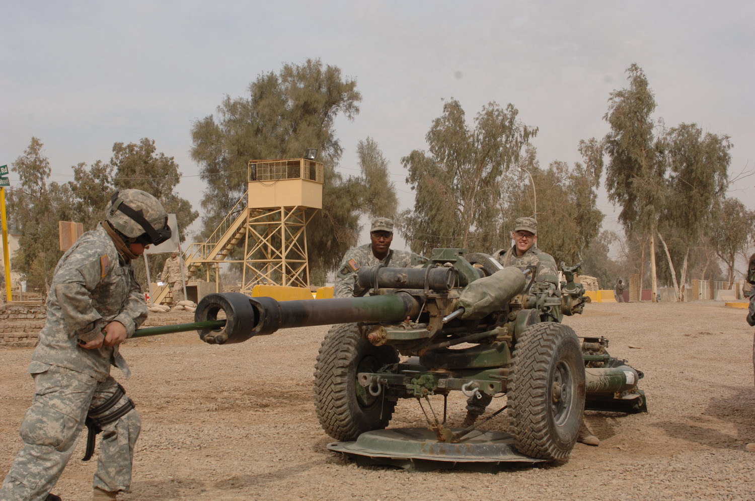 Pfc. Christian Zelaya pushes a cleaning rod down the barrel of a towed howitzer during routine maintenance at Forward Operations Base Rustimya, Iraq, on Jan. 23, 2006. Zelaya is attached to the Army's Bravo Company, 4th Brigade, 320th Field Artillery Regiment, 101st Airborne Division.